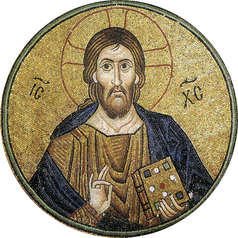 Christ Pantocrator, mosaic, cupola of choir, Hosios Loukas Monastery, Boeotia, Greece